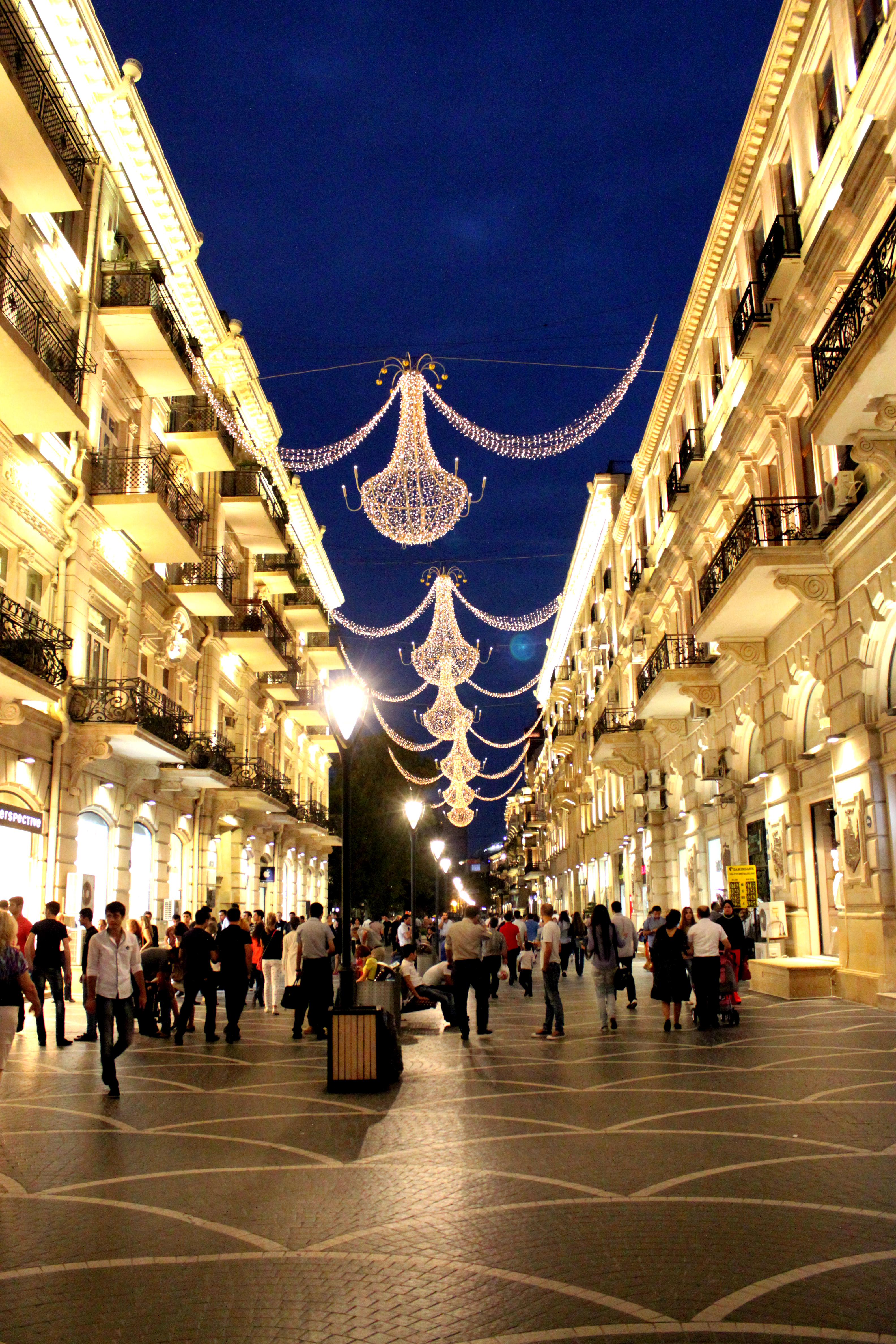 Nizami street historical buildings